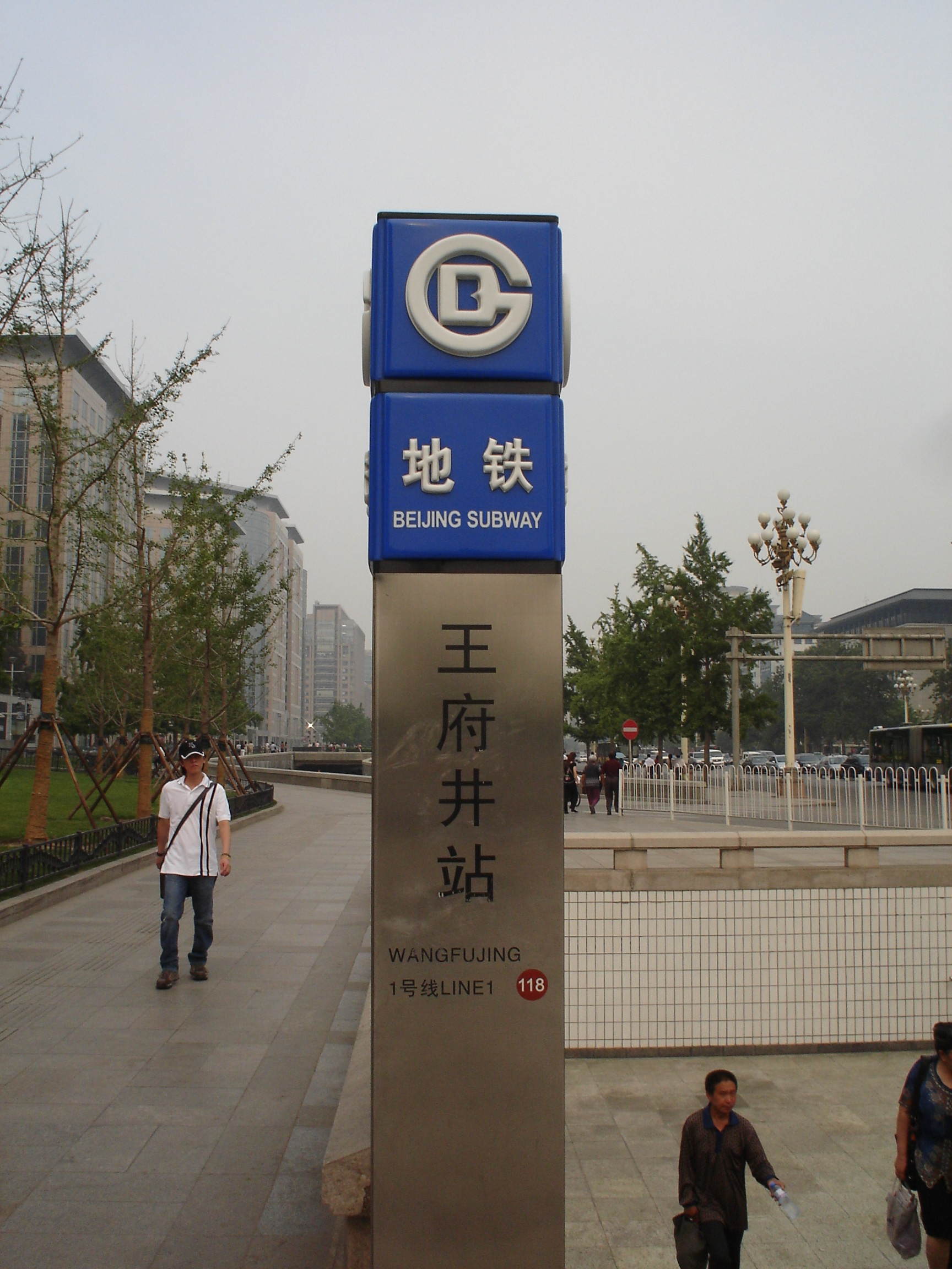 Beijing Subway Wangfujing station